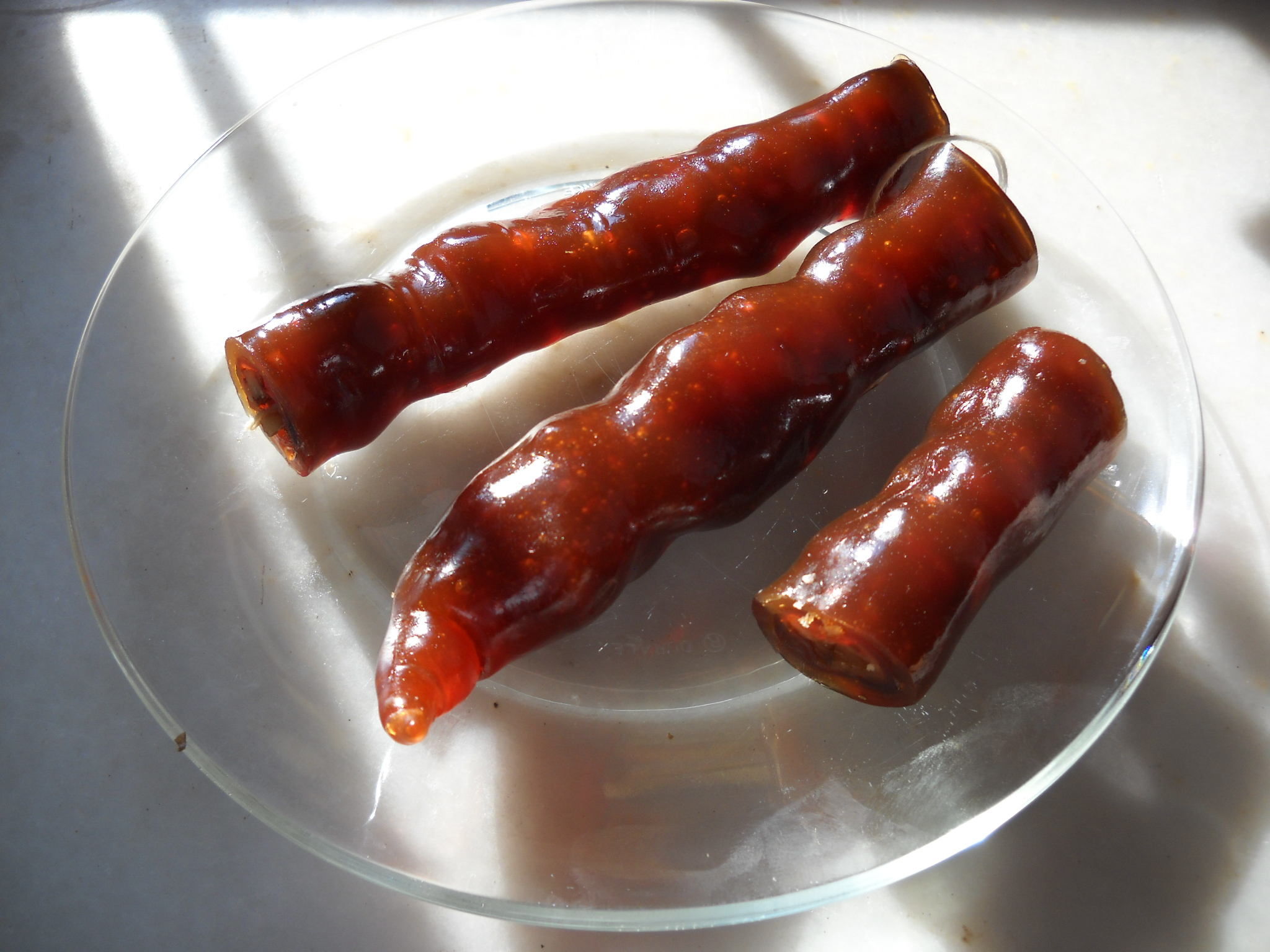 Maraş Sucuğu (Turkish Desert)